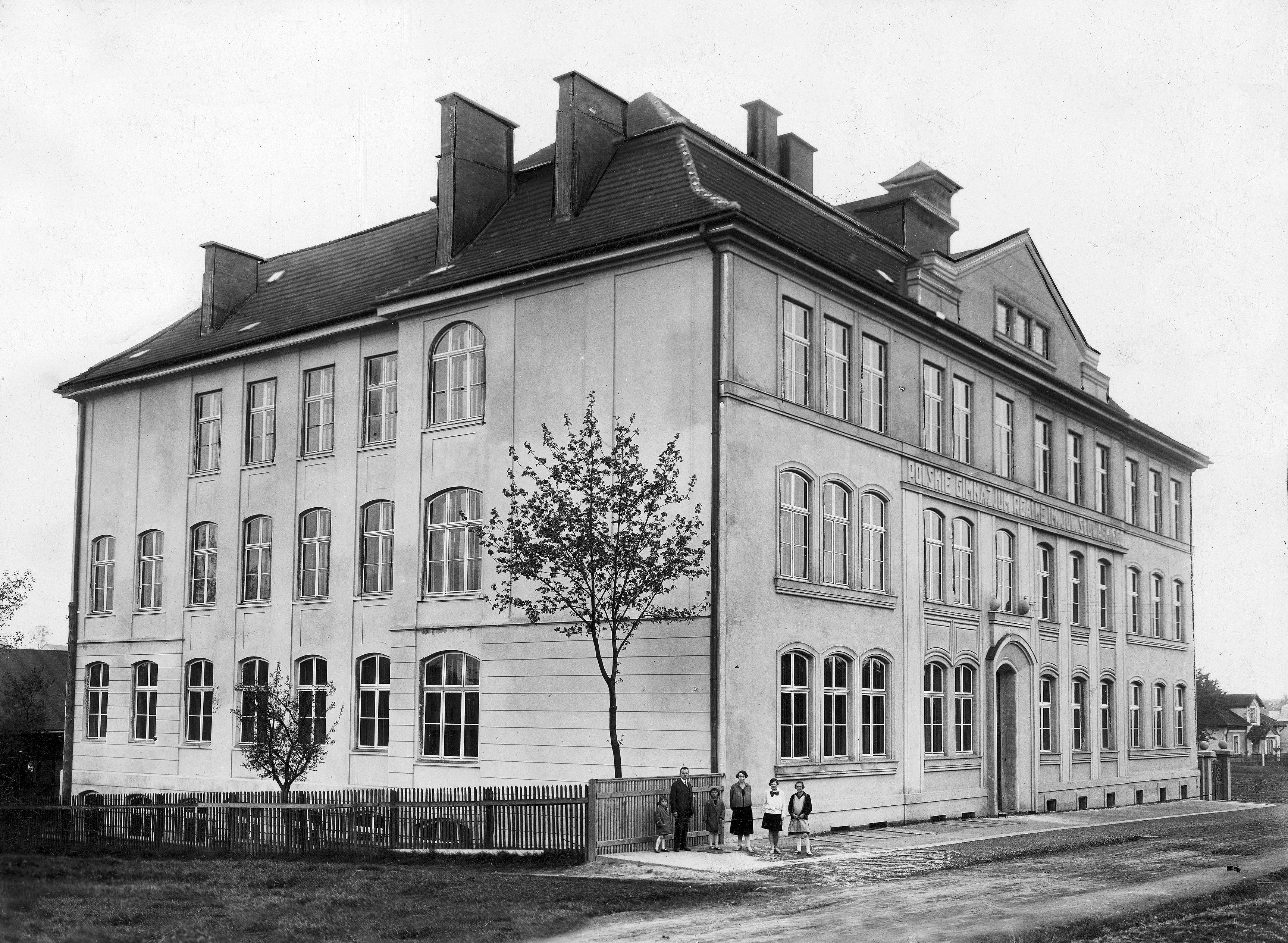 Juliusz Słowacki Polish Grammar School in Orłowa, Zaolzie, Czechoslovakia